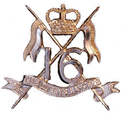 16th/5th The Queen's Royal Lancers Cap Badge